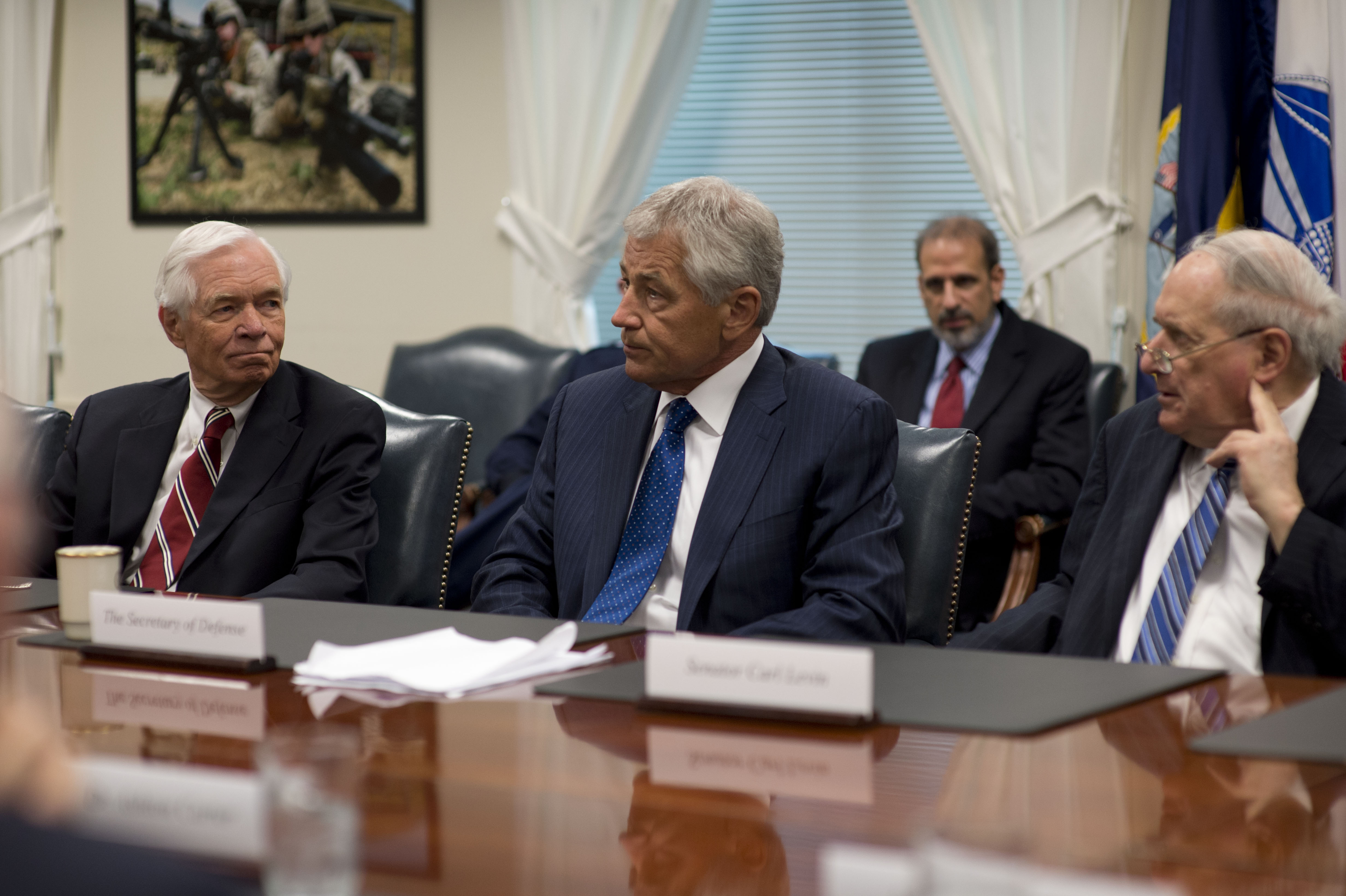 Secretary of Defense Chuck Hagel meets with Senators Carl Levin (left) and Thad Cochran, April 10, 2013, at the Pentagon. Hagel and members of the House and Senate Armed Service Committee's and the House Appropriation Defense Sub Committee met to discuss President Obama's budget directive for the 2014 fiscal year as well as the continuing effects of sequestration. (DoD photo by Erin A. Kirk-Cuomo) (Released)